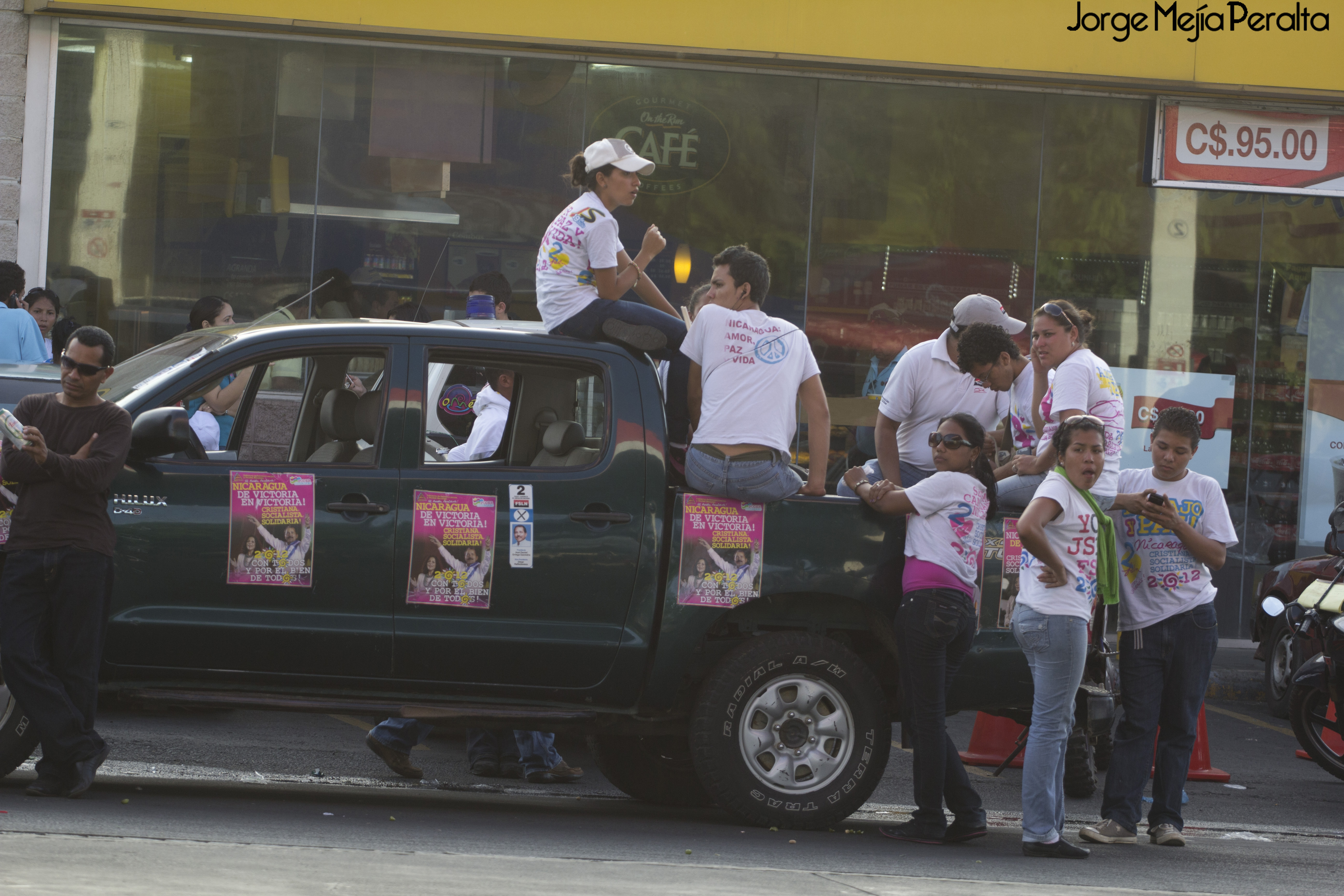 Members of the Sandinista Youth around a car